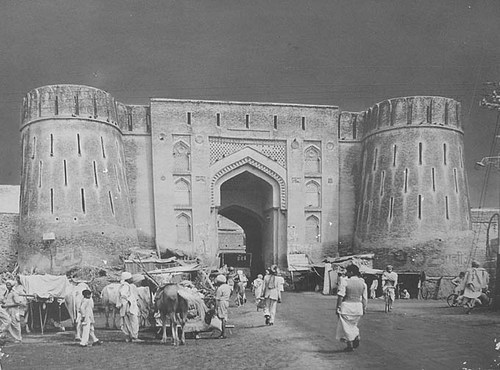 Barsi Gate (South Gate) Hansi